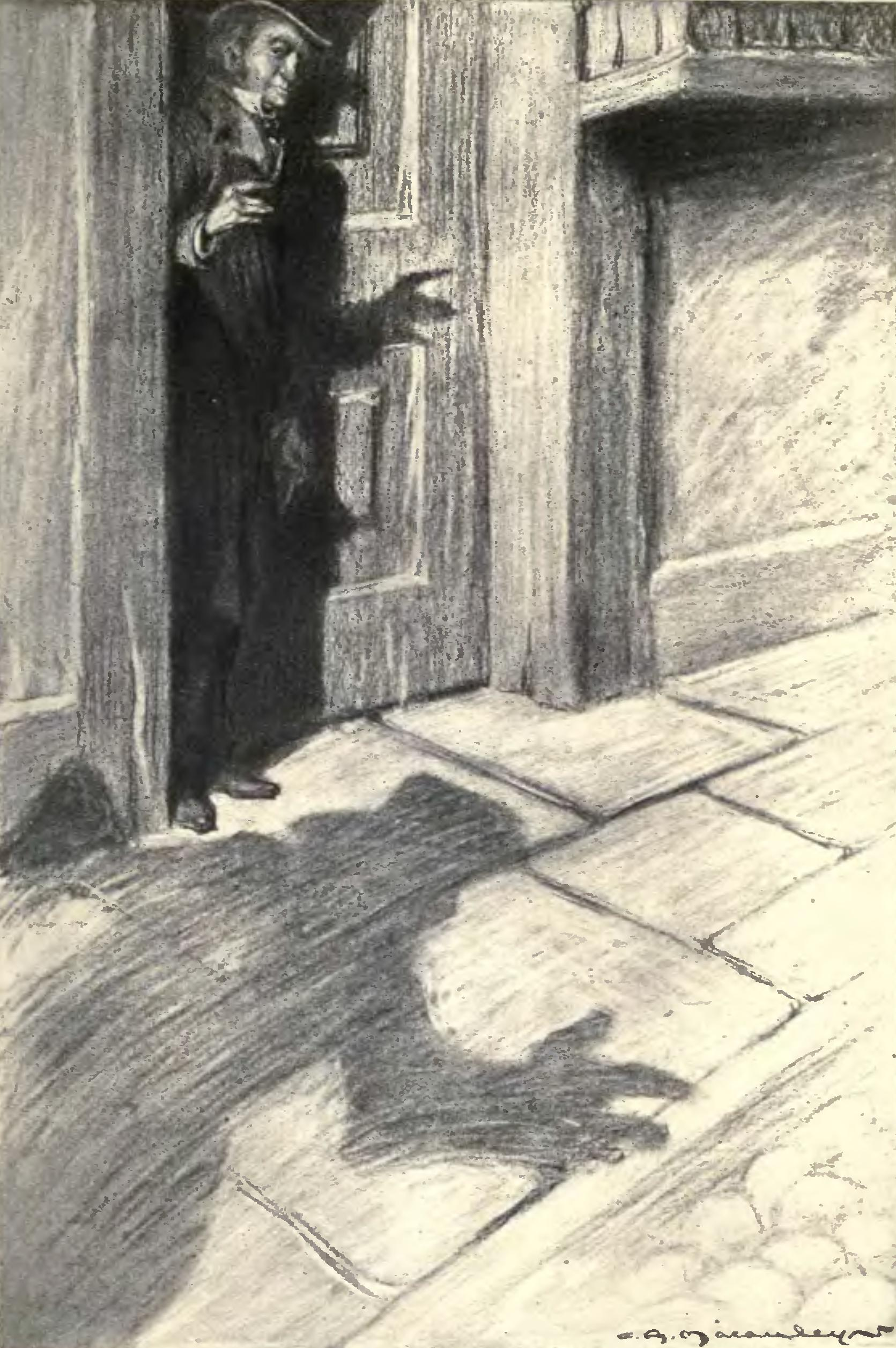 Artwork by Charles Raymond Macauley for the 1904 edition of The strange case of Dr. Jekyll and Mr. Hyde by Robert Louis Stevenson. Publisher: New York Scott-Thaw